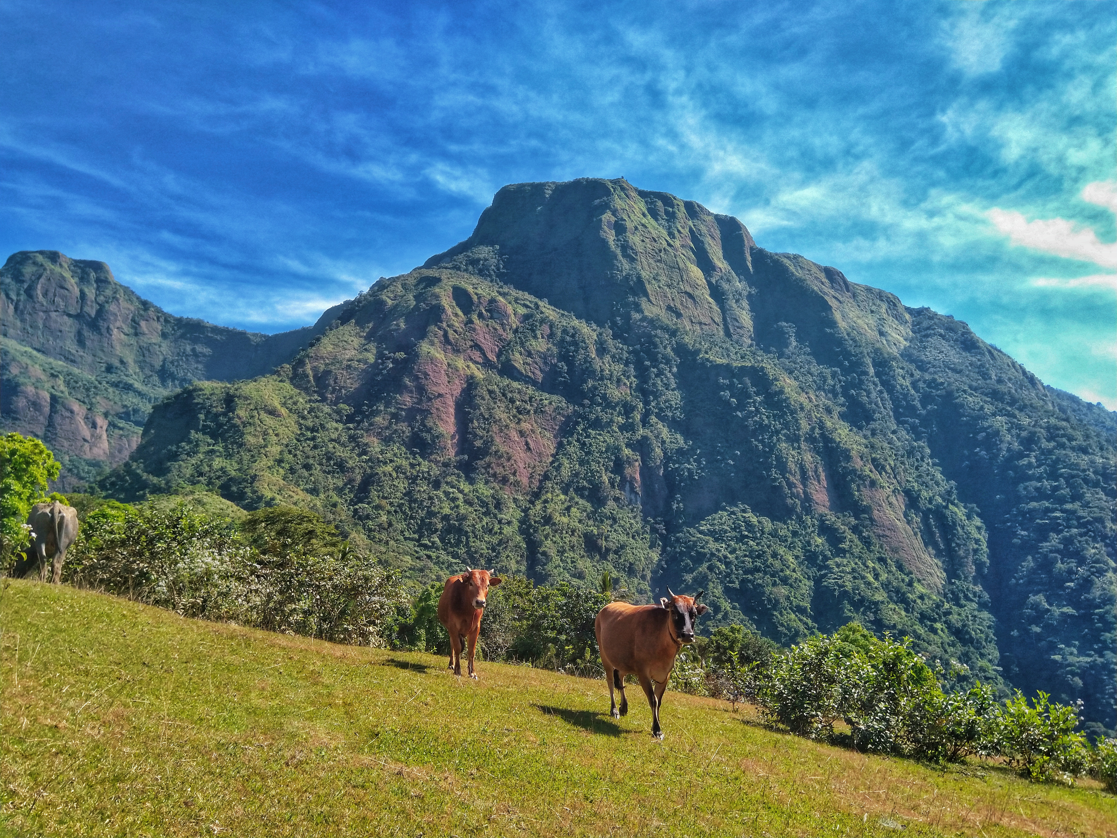 Domestic cattles owned by locals at a quaint grassland used for cow grazing.